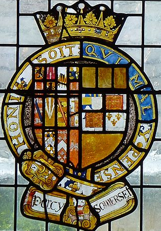 17th century stained glass escutcheon showing arms of Thomas Percy, 7th Earl of Northumberland (1528-1572), KG, (with 11 quarters) impaling Beaufort (Somerset) (glass damaged/incomplete), paternal arms of his wife Anne Somerset, daughter of Henry Somerset, 2nd Earl of Worcester, the whole circumscribed by the Garter. Detail from Percy Window, Petworth House, Sussex. 11 Quarters of dexter half: 1: Percy modern quartering Lucy; 2: Percy ancient; 3: (damaged/mismatched fragments (Percy modern, Lucy)); 4: FitzPayne; 5: Bryan; 6: Poynings; 7: Beaufort; 8: Beauchamp; 9: Newburgh; 10: Berkeley; 11: Lisle of Kingston Lisle